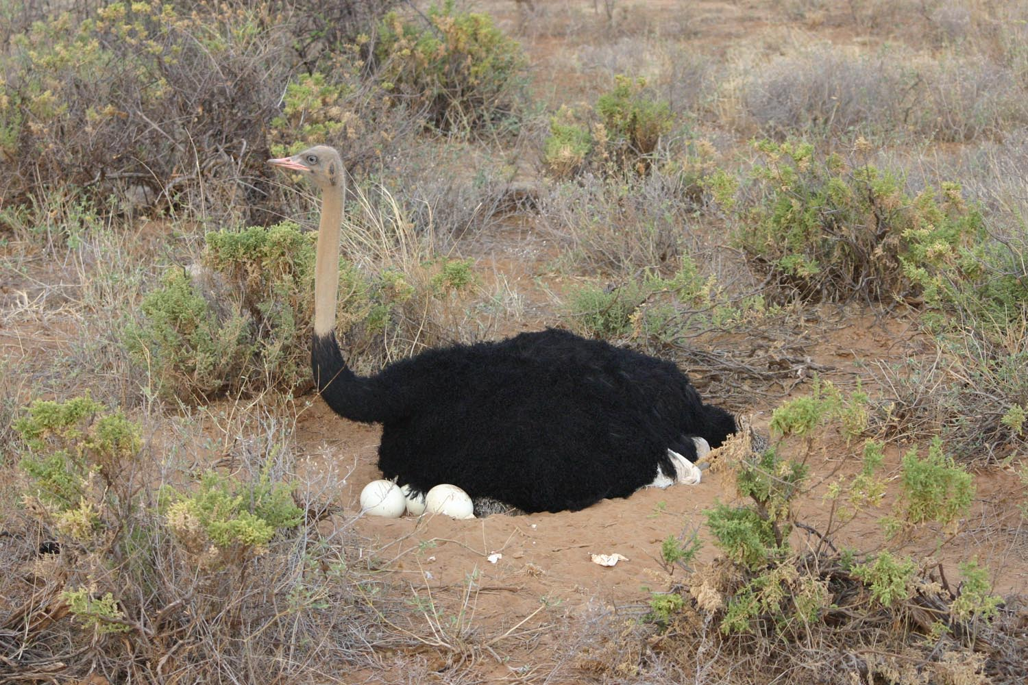 A male Somali Ostrich brooding on its nest in Samburu National Reserve, Kenya